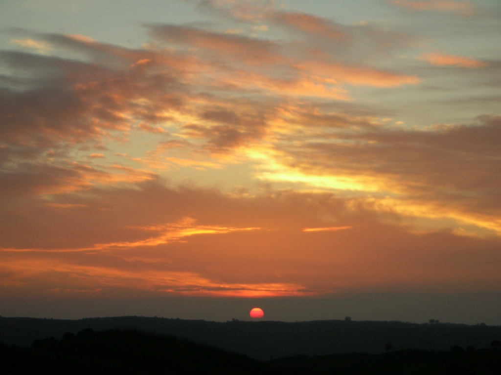 Sunrise, Castro Marim - Portugal.